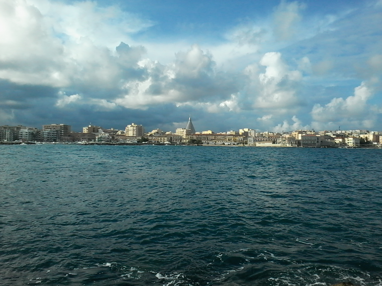 The church, Syracuse